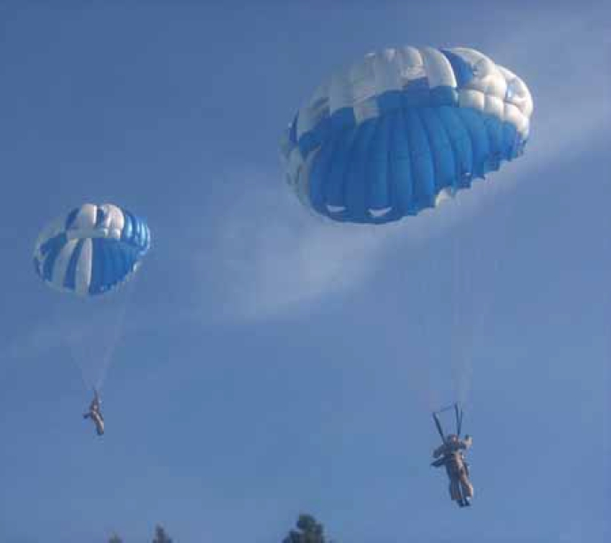 Parachute FS-14 of the USFS Smokejumpers.